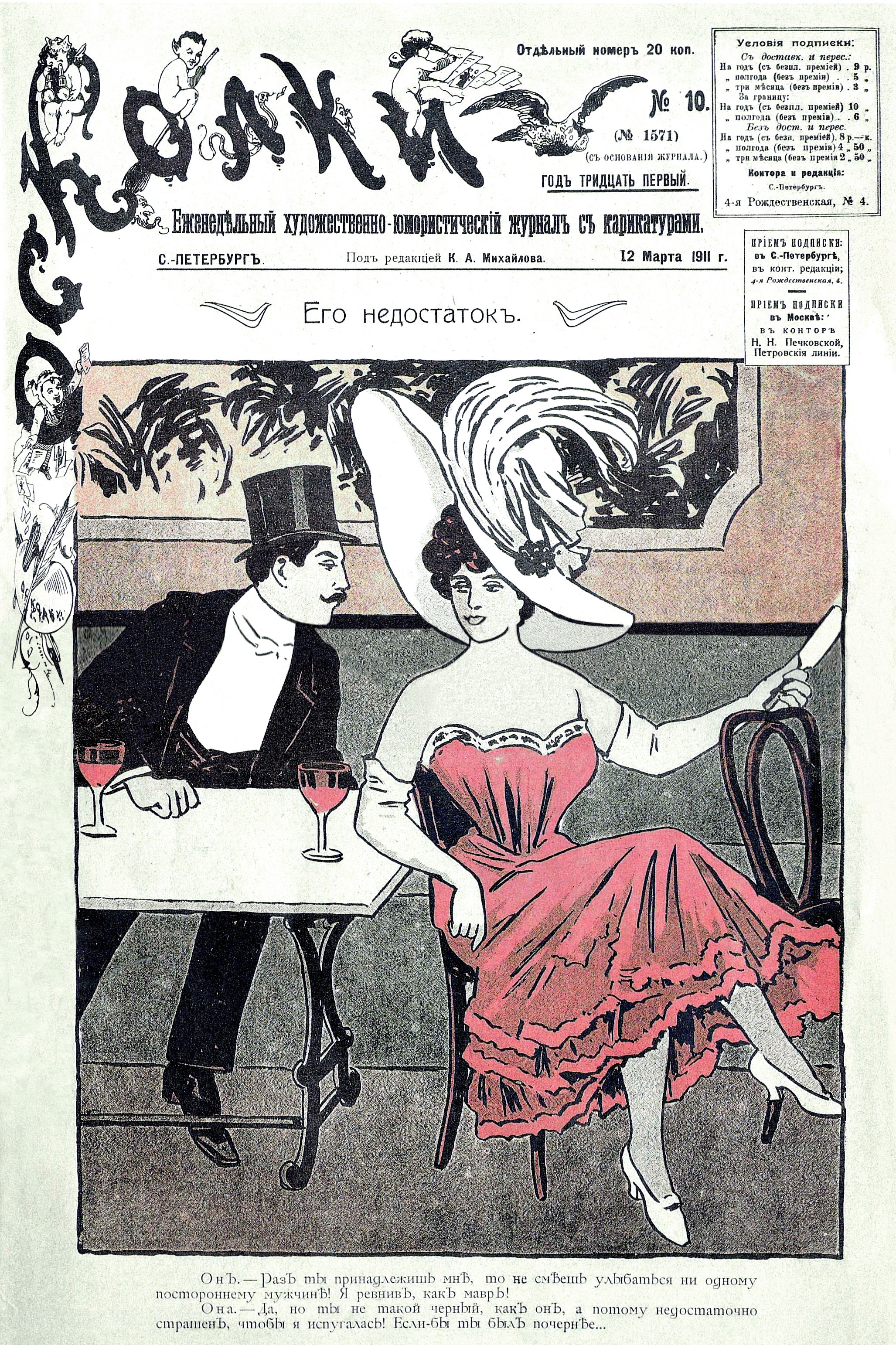 Cover of Russian Magazine Fragments